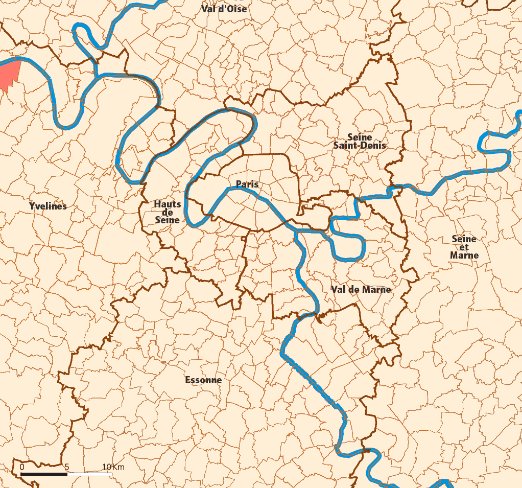 Created map myself.